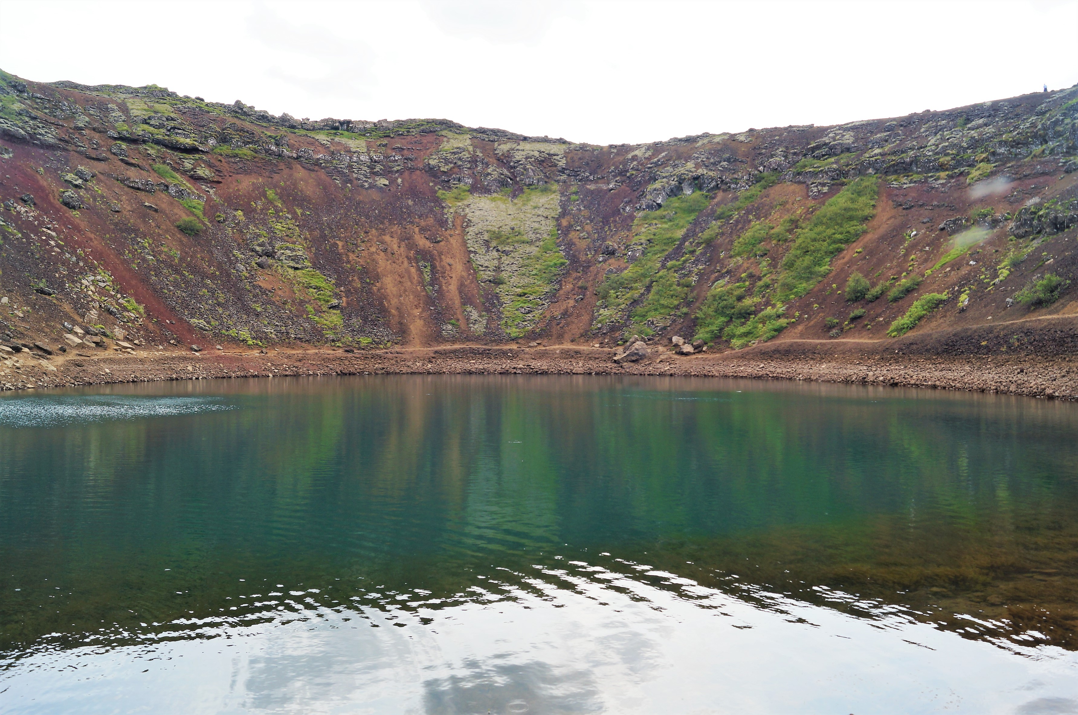 At the shore of Kerið crater lake